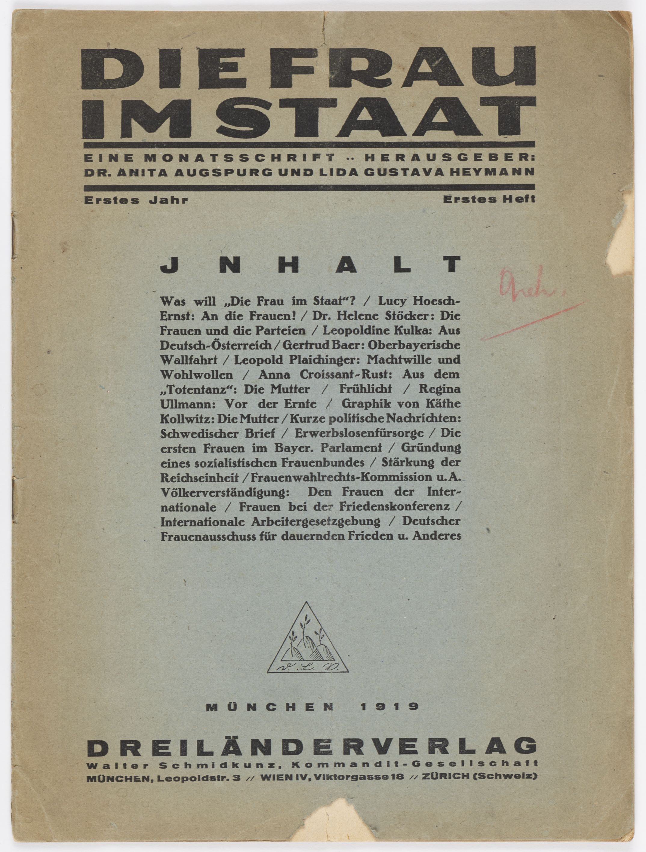 "The woman and the state" 1919 by Dr. Anita Augsprung (German:"Die Frau im S